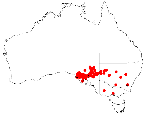 Acacia beckleri Occurrence data from Australasia Virtual Herbarium downloaded from on 8 December 2018